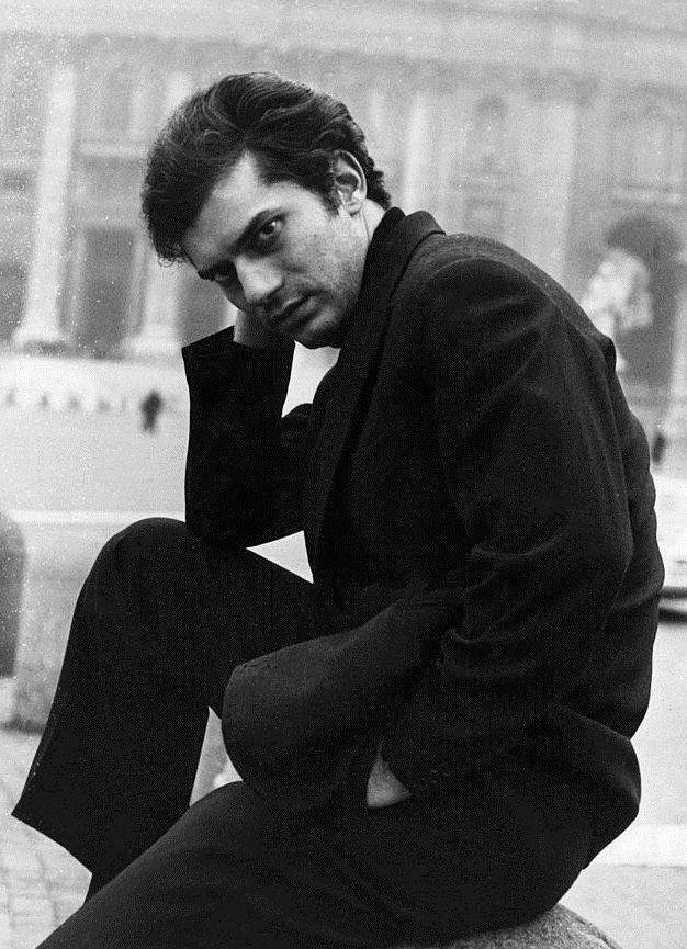 The Italian singer Luigi Tenco sitting in San Pietro square. State of the Vatican, 1967